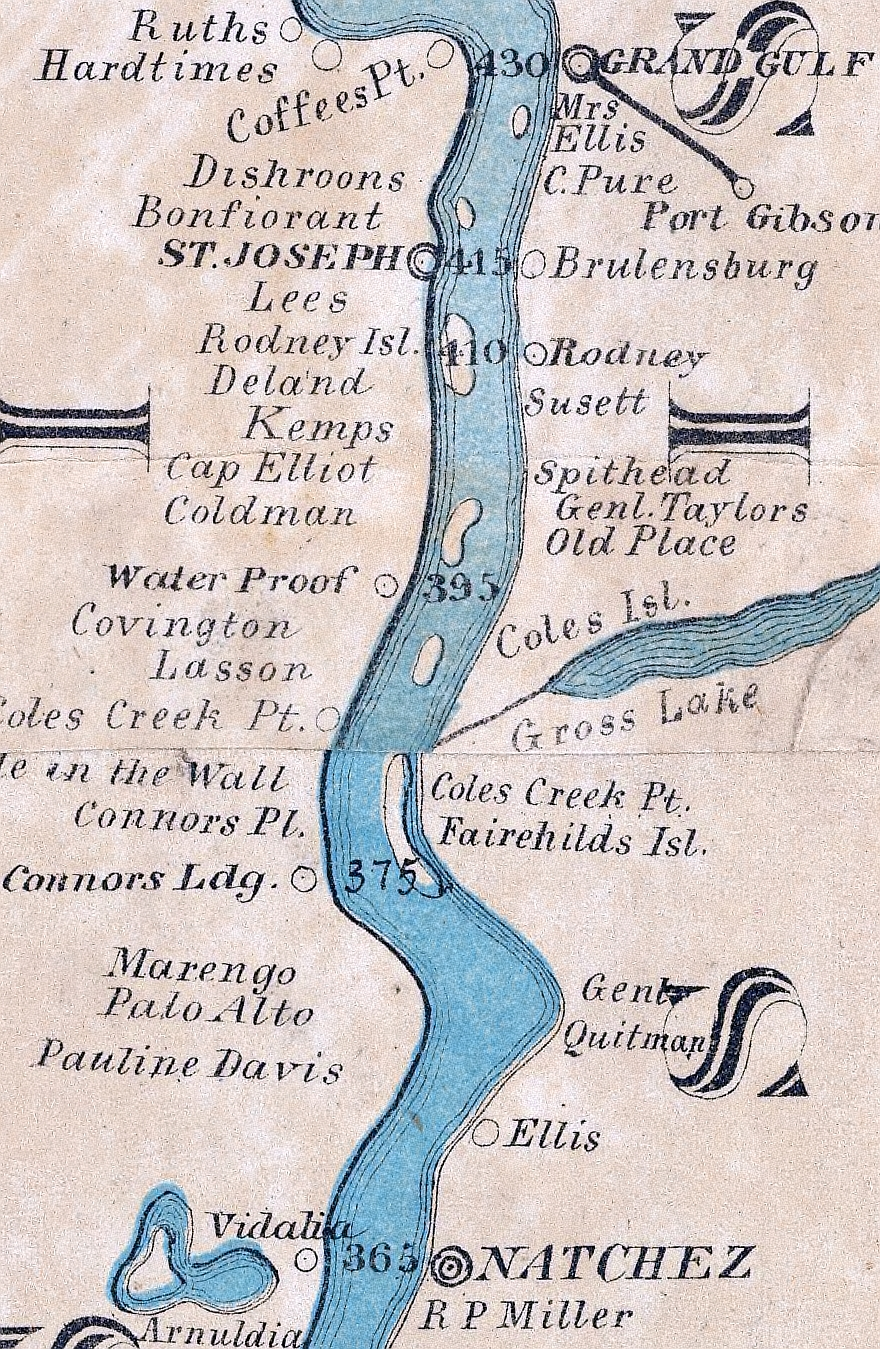 Map of Mississippi River from Grand Gulf, Mississippi to Natchez, Mississippi. Extracted from a map published by Coloney, Fairchild & Co. entitled Ribbon Map Of The Father Of Waters. The map identifies "Genl. Taylors Old Place", which was the Cypress Grove Plantation owned by U.S. President Zachary Taylor.